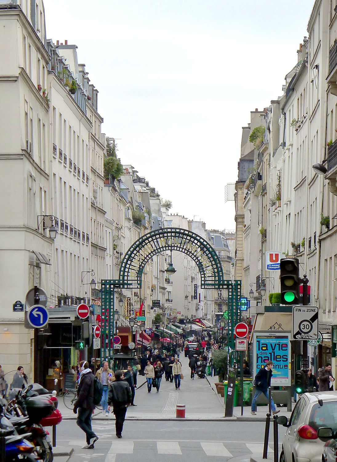 Montorgueil street - Paris